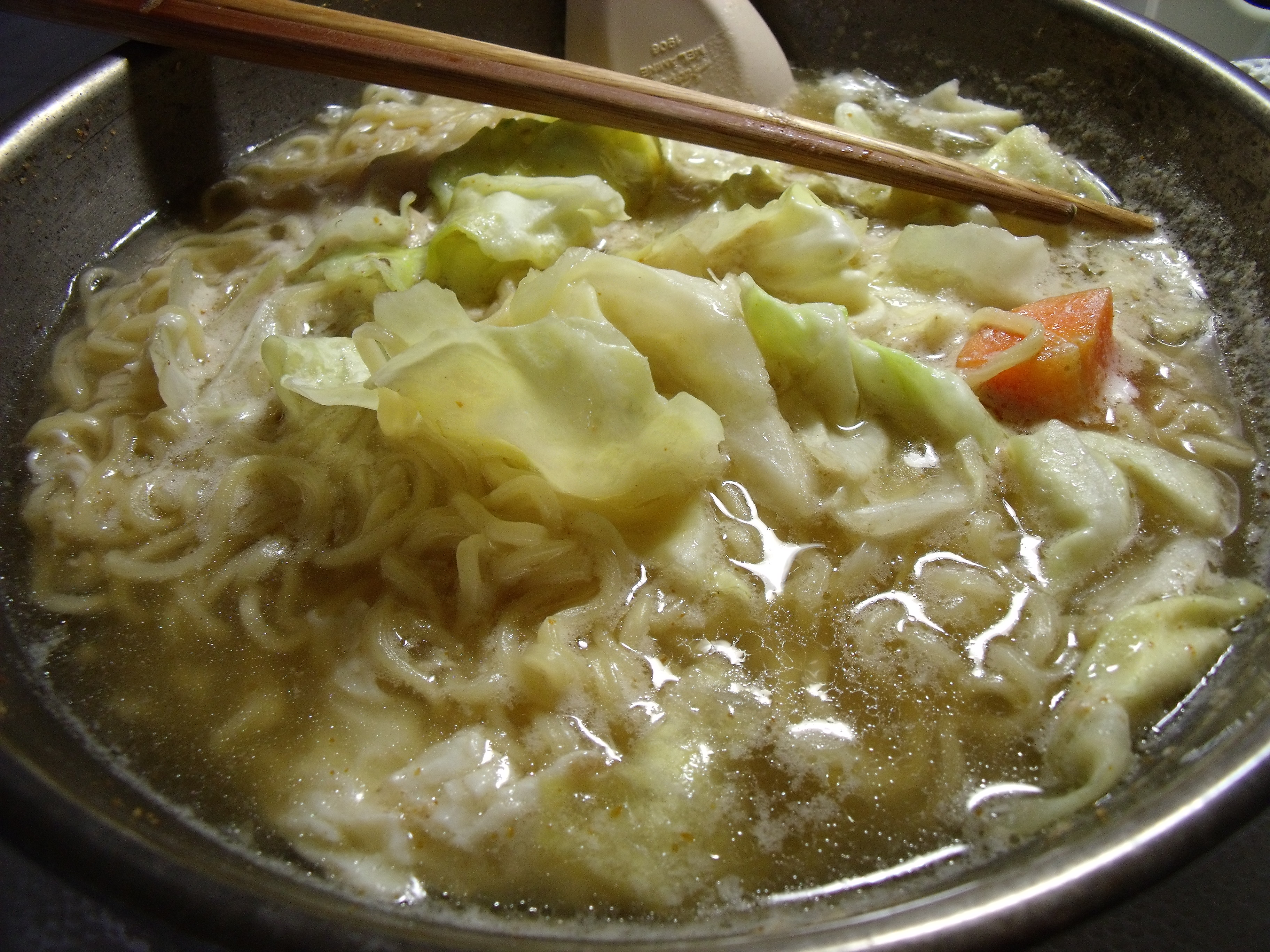 Instant noodles with cabbage, egg and carrot pieces.